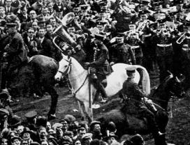 1923 FA Cup Final: Mounted police, including constable George Scorey and his white horse Billy, keep fans from spilling onto the Wembley pitch.